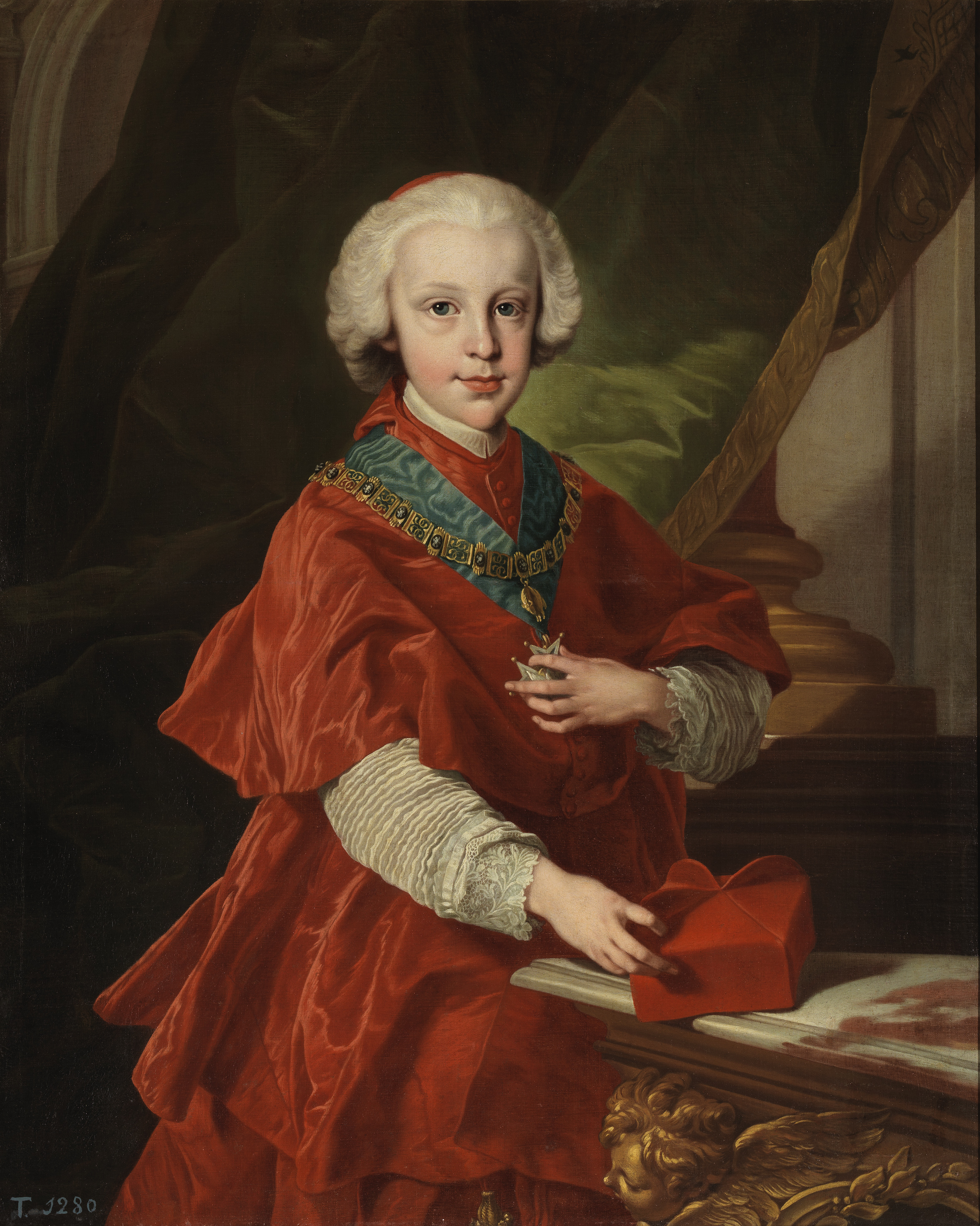 Infante Luis Antonio Jaime of Spain, the Cardinal-Infante (Madrid, 25 July 1727 – Vila de Arenas de San Pedro, Ávila, 7 August 1785), Infante of Spain, Cardinal Deacon of the Title of the church of Santa Maria della Scala in Rome, Archbishop of Toledo and Primate of Spain and 13th Conde de Chinchón Grandee of Spain First Class with a Coat of Arms of de Bourbon. Luis was a son of Philip V, King of Spain and his second wife, Elisabeth of Parma.